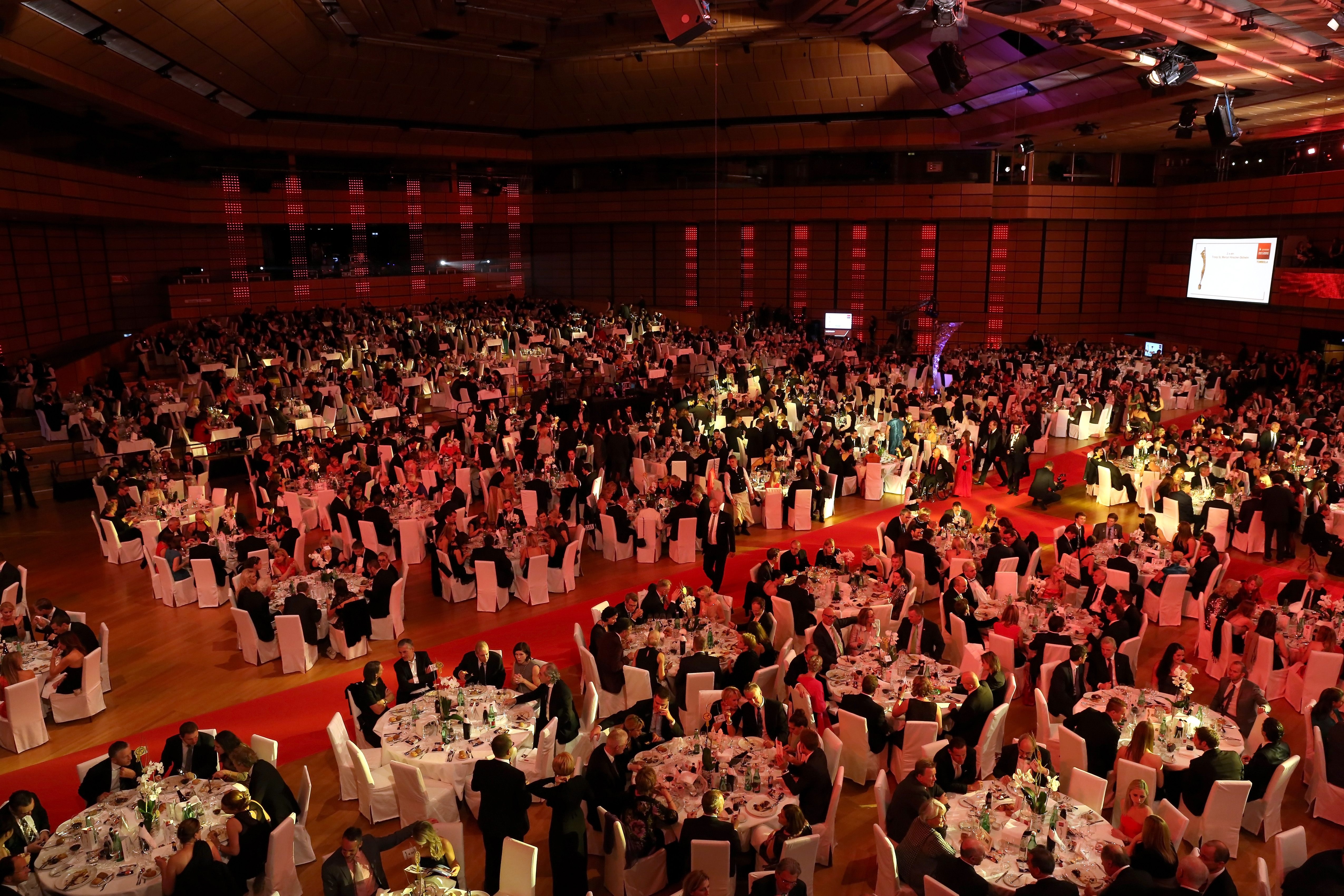 Austria Center Vienna at the evening of the award show for the Austrian Sportspersonalities of the Year 2013 (Vienna, Austria).